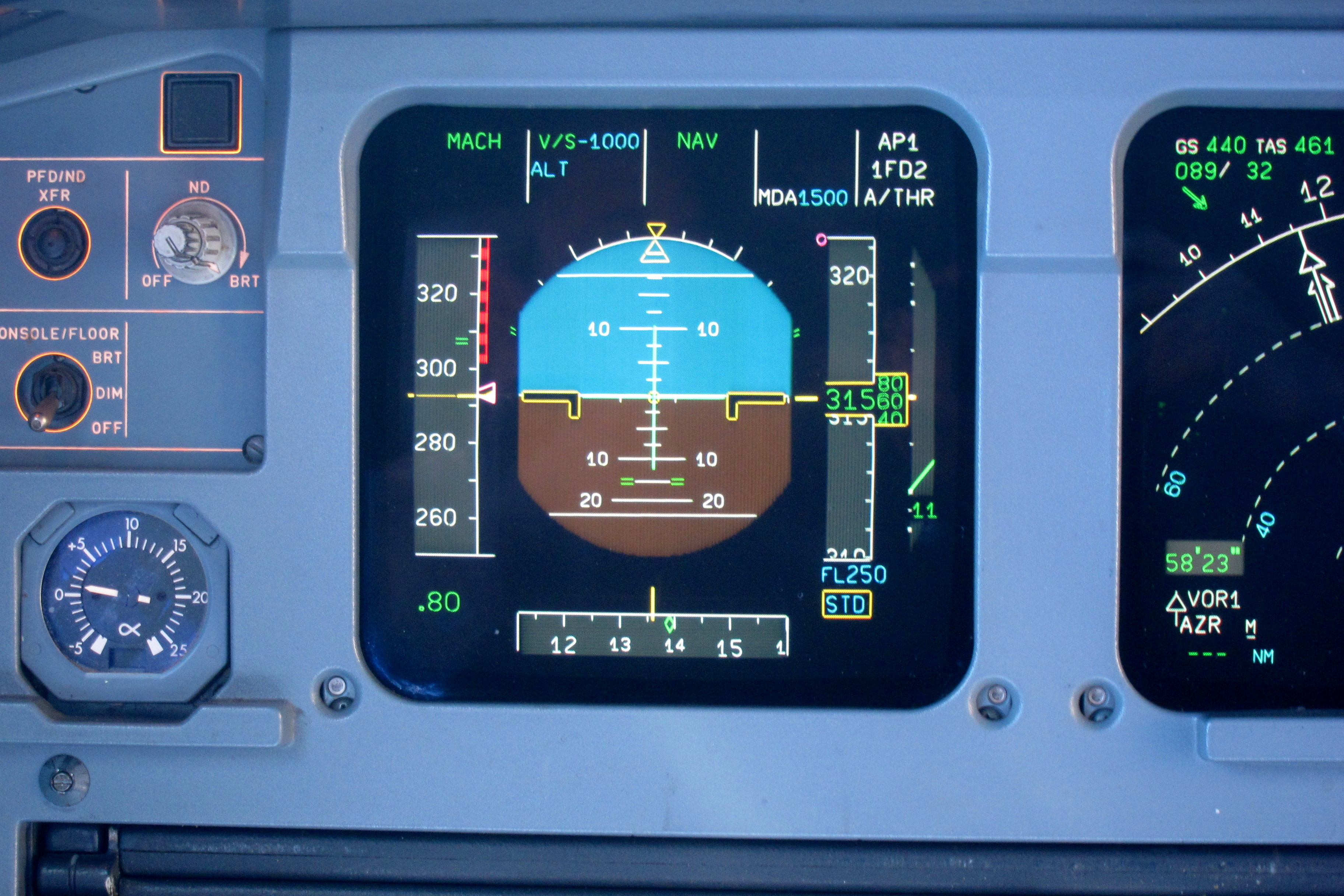 The primary flight display of an Airbus A320 family aircraft seen during cruise. Strong headwinds mandated a higher-than-usual cruise speed (M0.8).